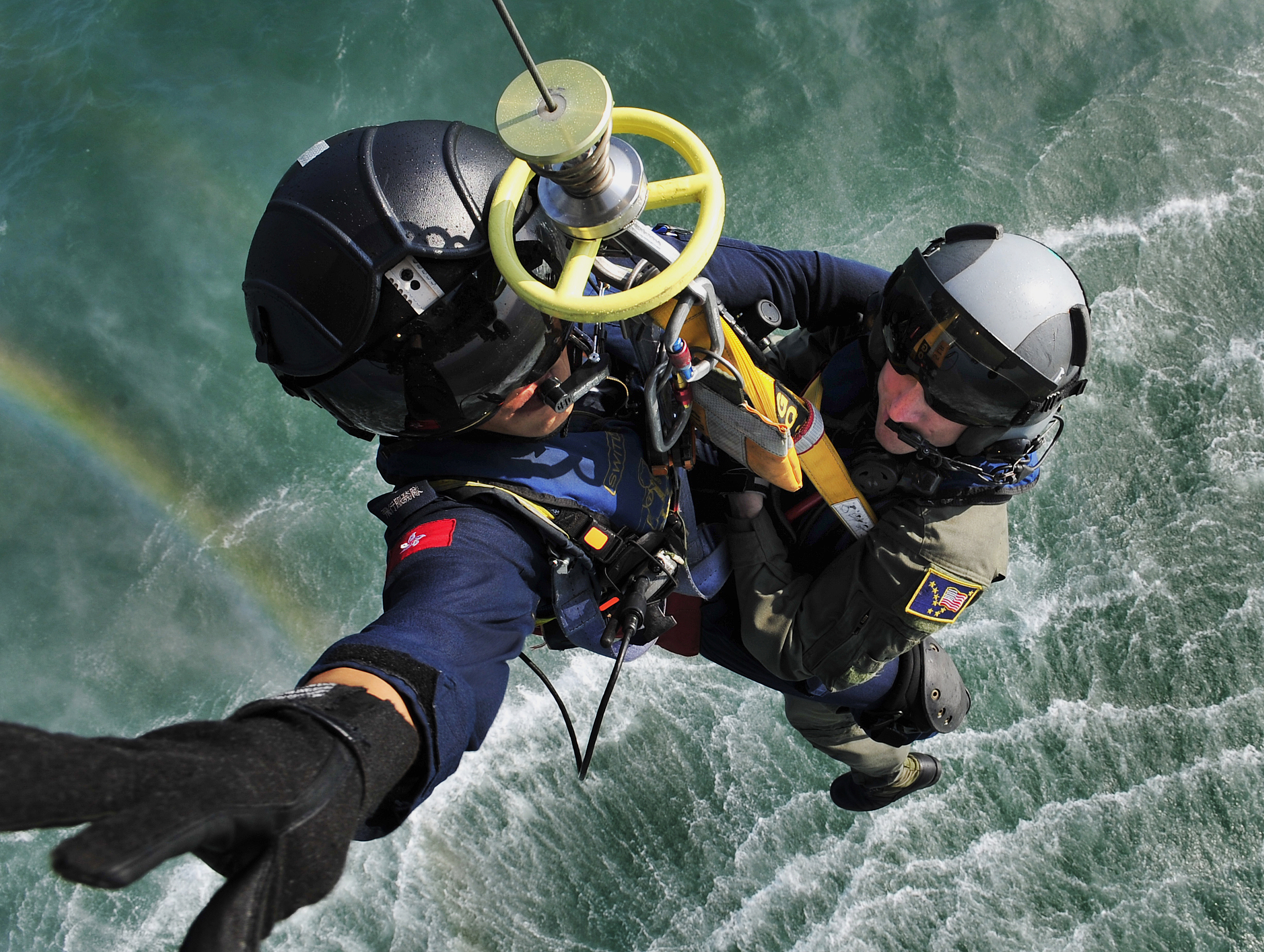 HONG KONG (Oct. 22, 2008) Hong Kong Government Flying Service Lt. Vincent Wong, left, and U.S. Air National Guard Tech. Sgt. Brandon Stuemke practice seaborne hoisting during preparations for the Hong Kong Search and Rescue Exercise (SAREX) 2008. Stuemke is a member of the Alaska Air National Guard's 212th Rescue Squadron, based at Kulis Air Base in Anchorage, Alaska. The Hong Kong SAREX is an annual exercise involving units from the U.S., Hong Kong and the People's Republic of China. U.S. Navy photo by Mass Communication Specialist 1st Class Michael B. Watkins (Released)